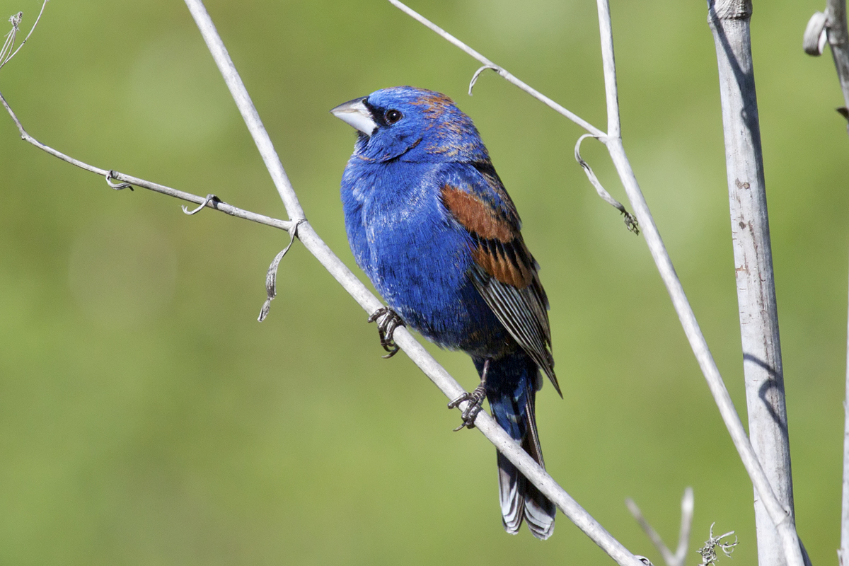 First summer male. Turri Road, San Luis Obispo Co., CA, USA. April 30